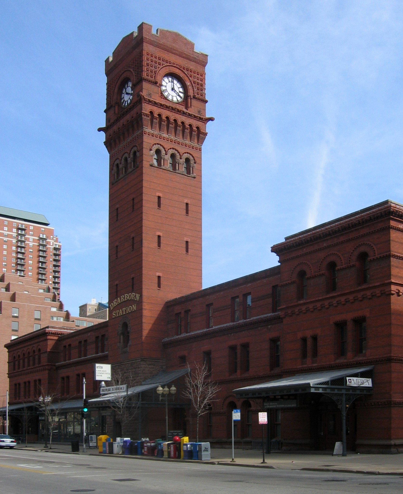 The former Dearborn Station, Chicago, IL. from the corner of S. Federal St. and W. Polk St. looking SE.